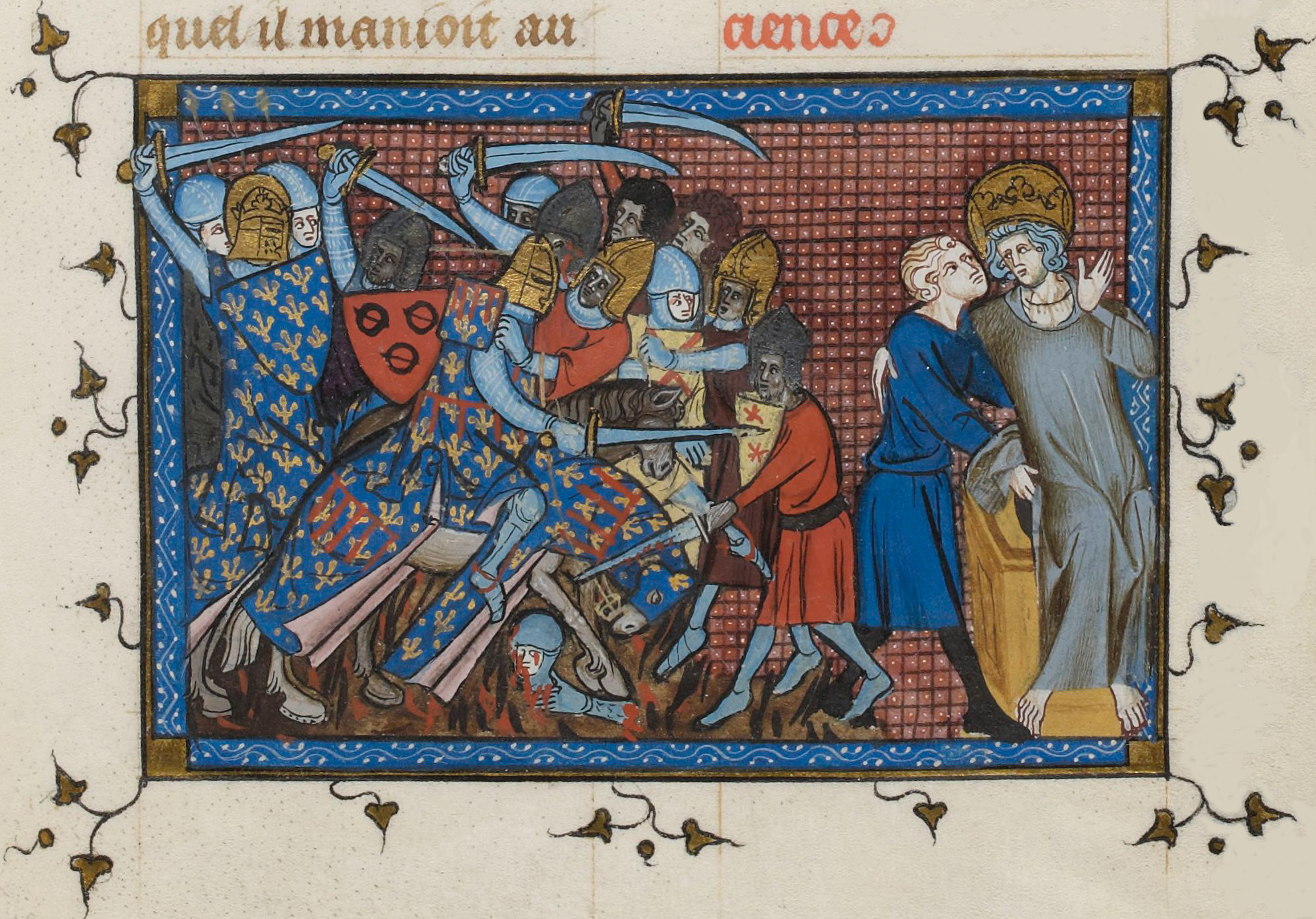 Battle of Al Mansurah. BnF, Ms.Fr. 5716.